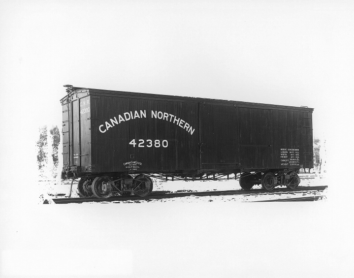 Photograph, Freight car, Canadian Northern Railway, Montreal, QC, 1906(?), Wm. Notman & Son, Silver salts, paint (opaquing) on glass - Gelatin dry plate process 20 x 25 cm